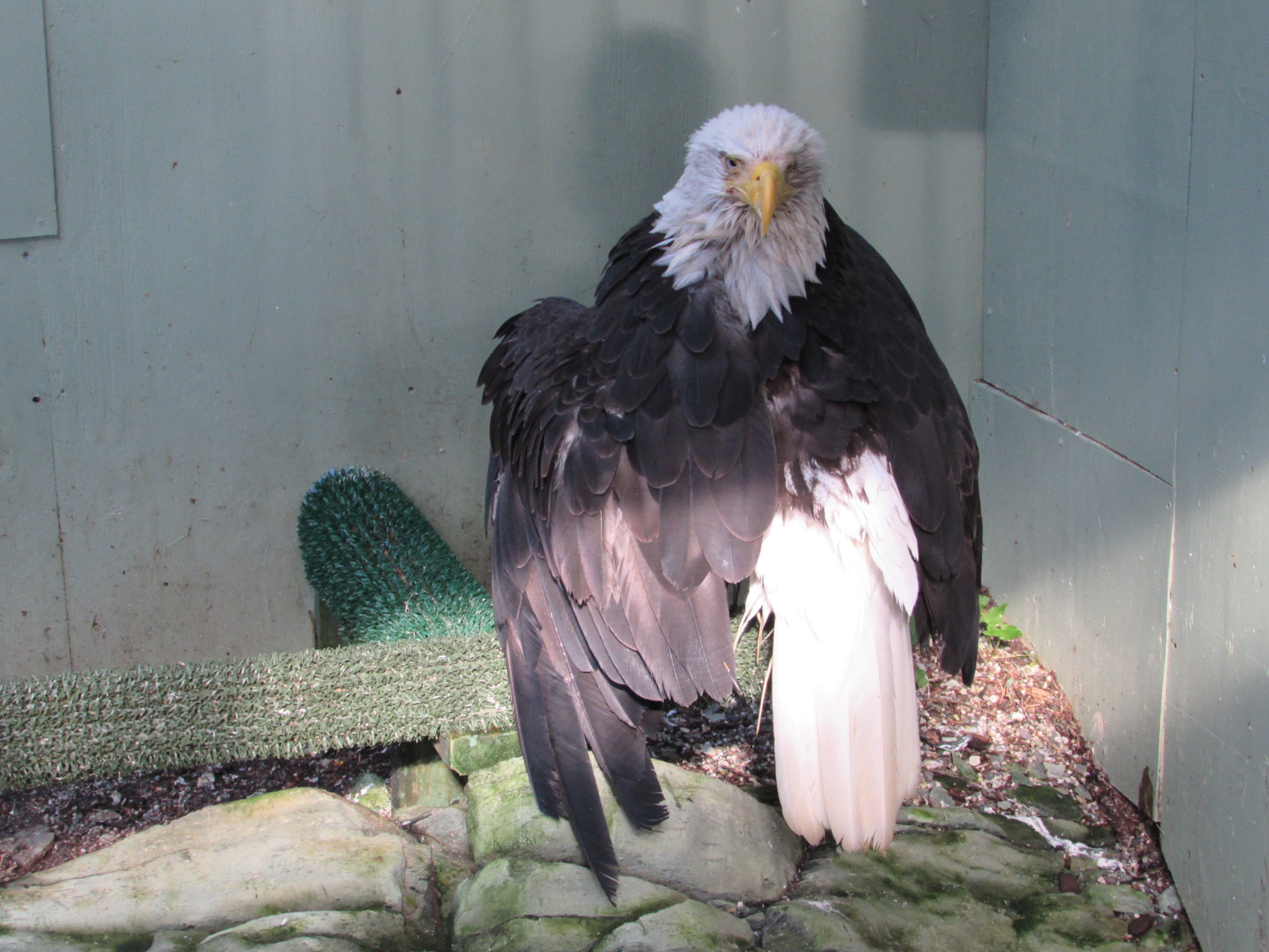 Lady Baltimore, in her habitat, atop the Mount Roberts Tramway in Juneau, Alaska, U.S.